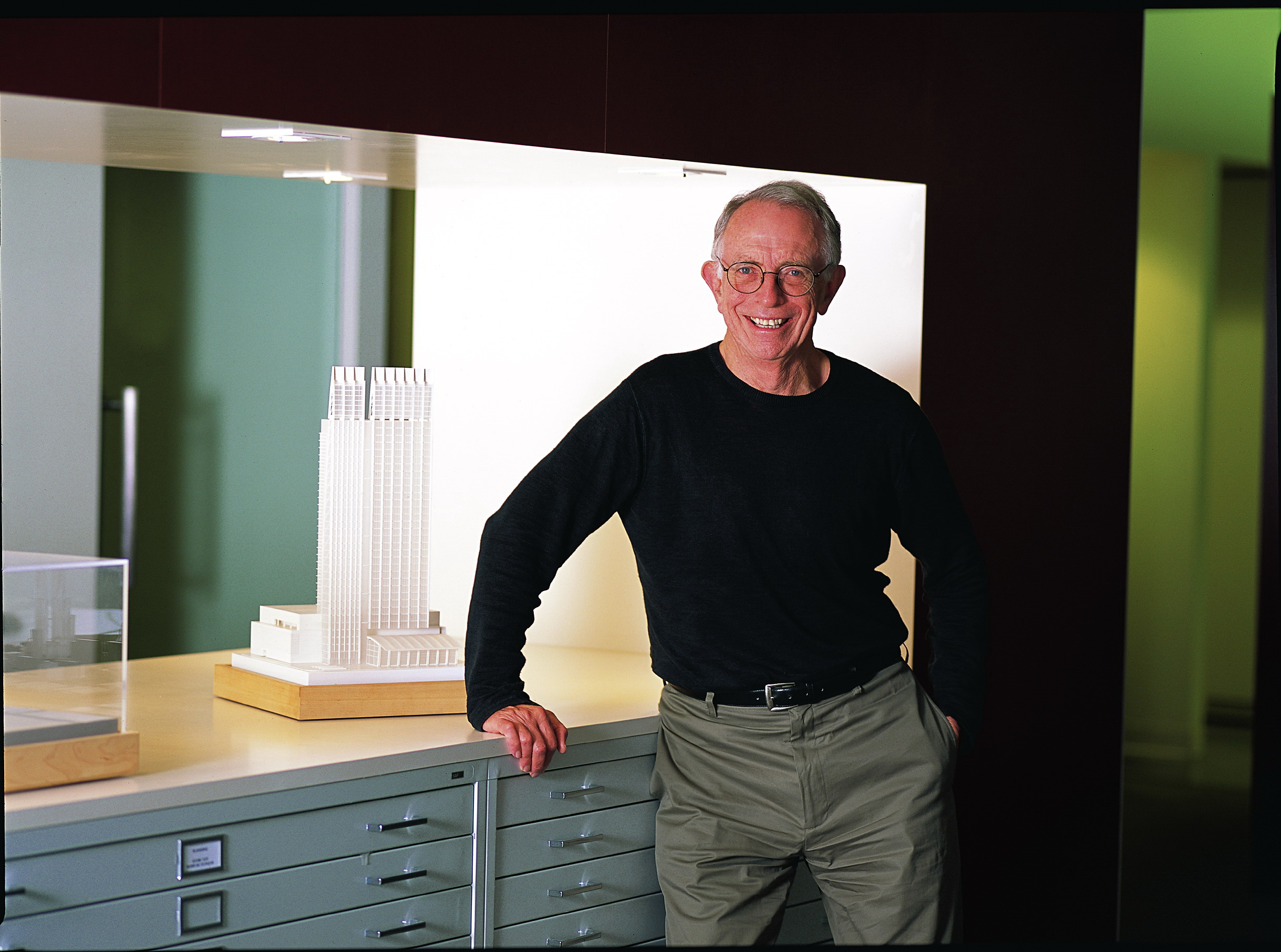 Bill Valentine, chairman of global architectural firm HOK